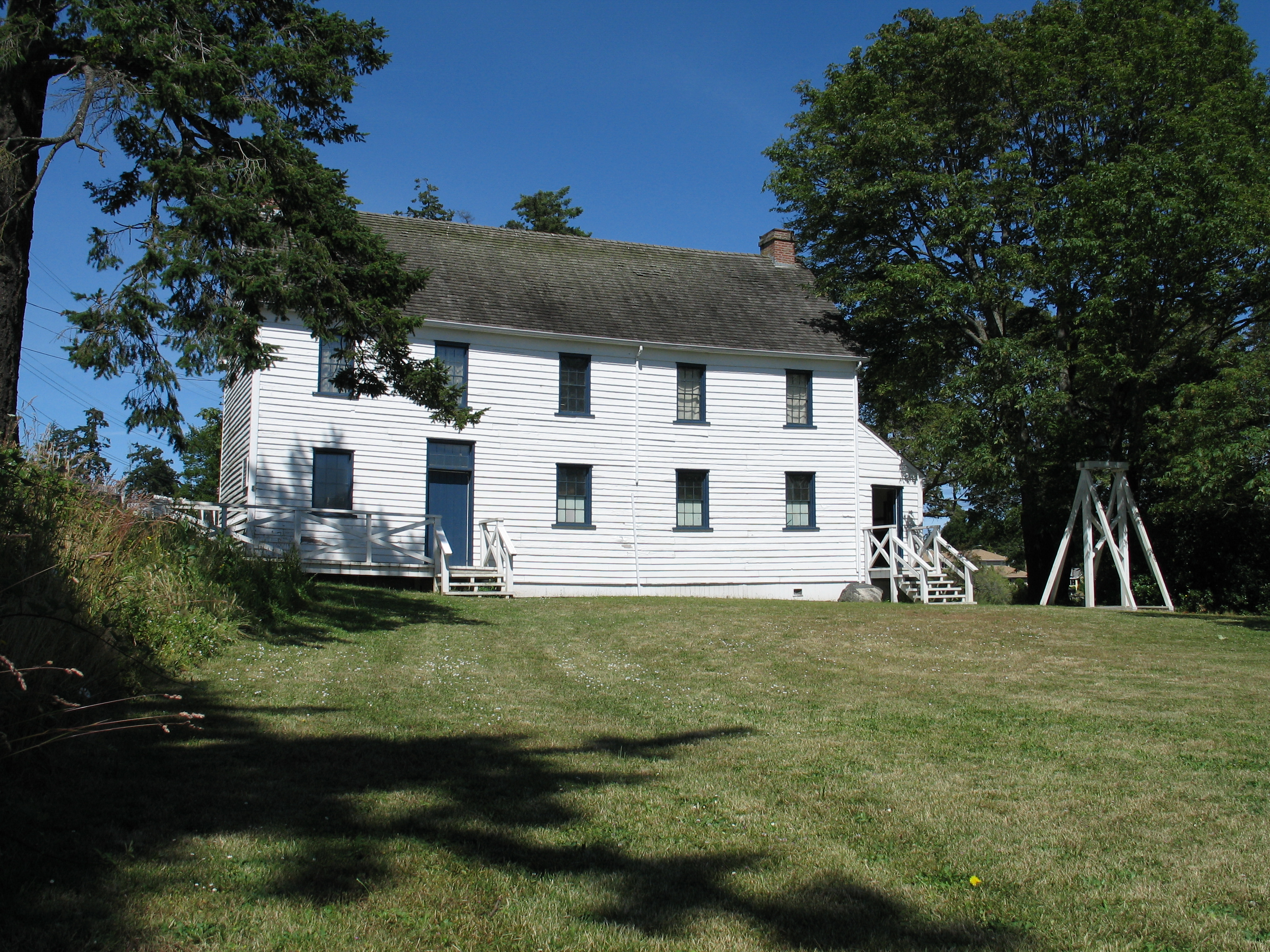 A view of Craigflower schoolhouse from the front.